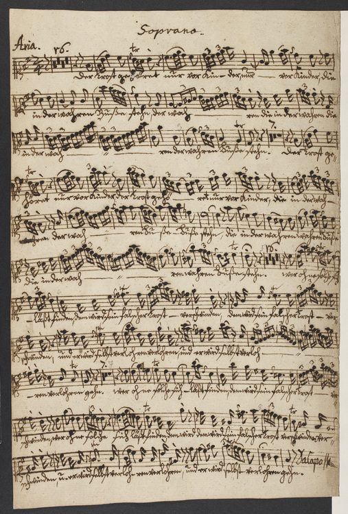 A handwritten page from the manuscript score of Der Trost gehöret, from Es ist eine Stimme eines Predigers, written in the author's own hand. Held and digitised by the British Library.